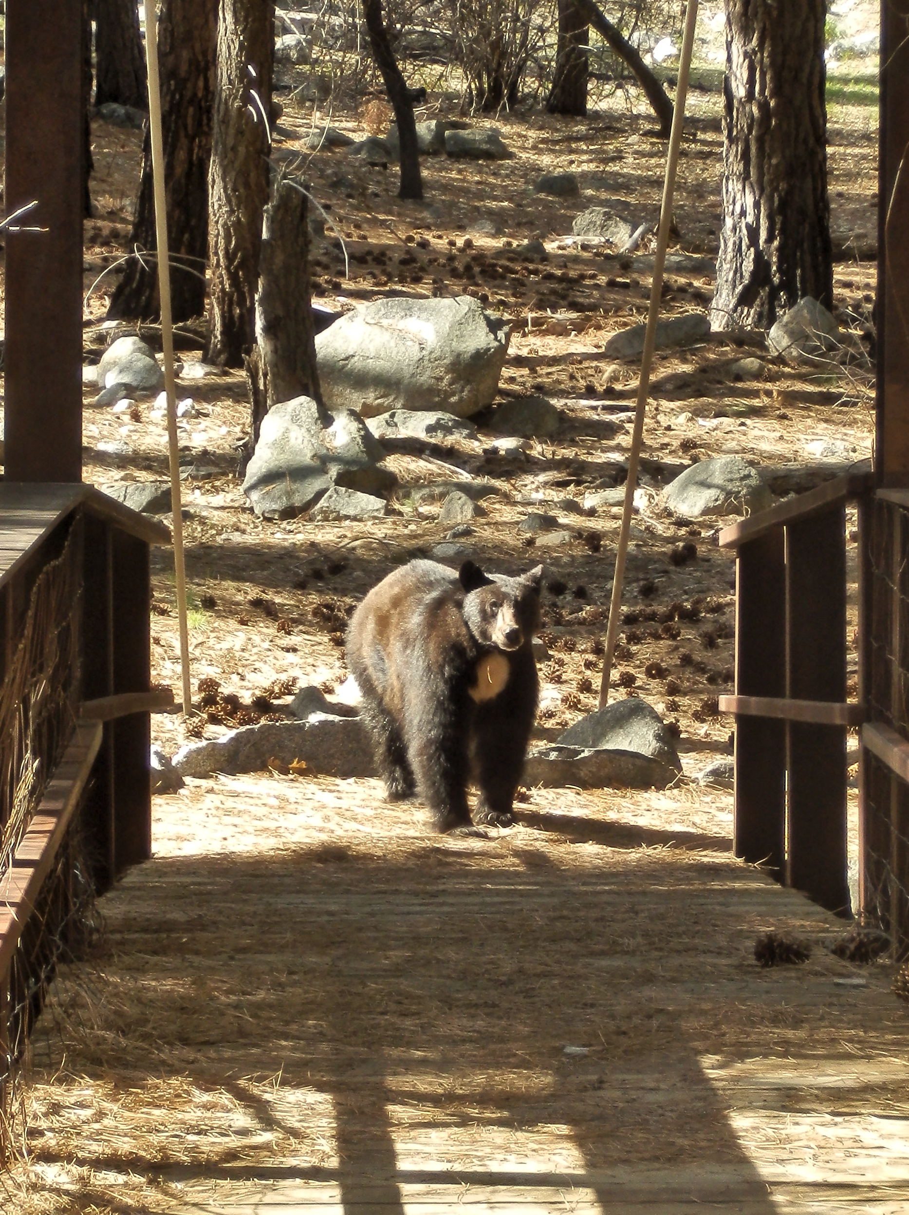 Black bear in the Kings Canyon Nationalpark